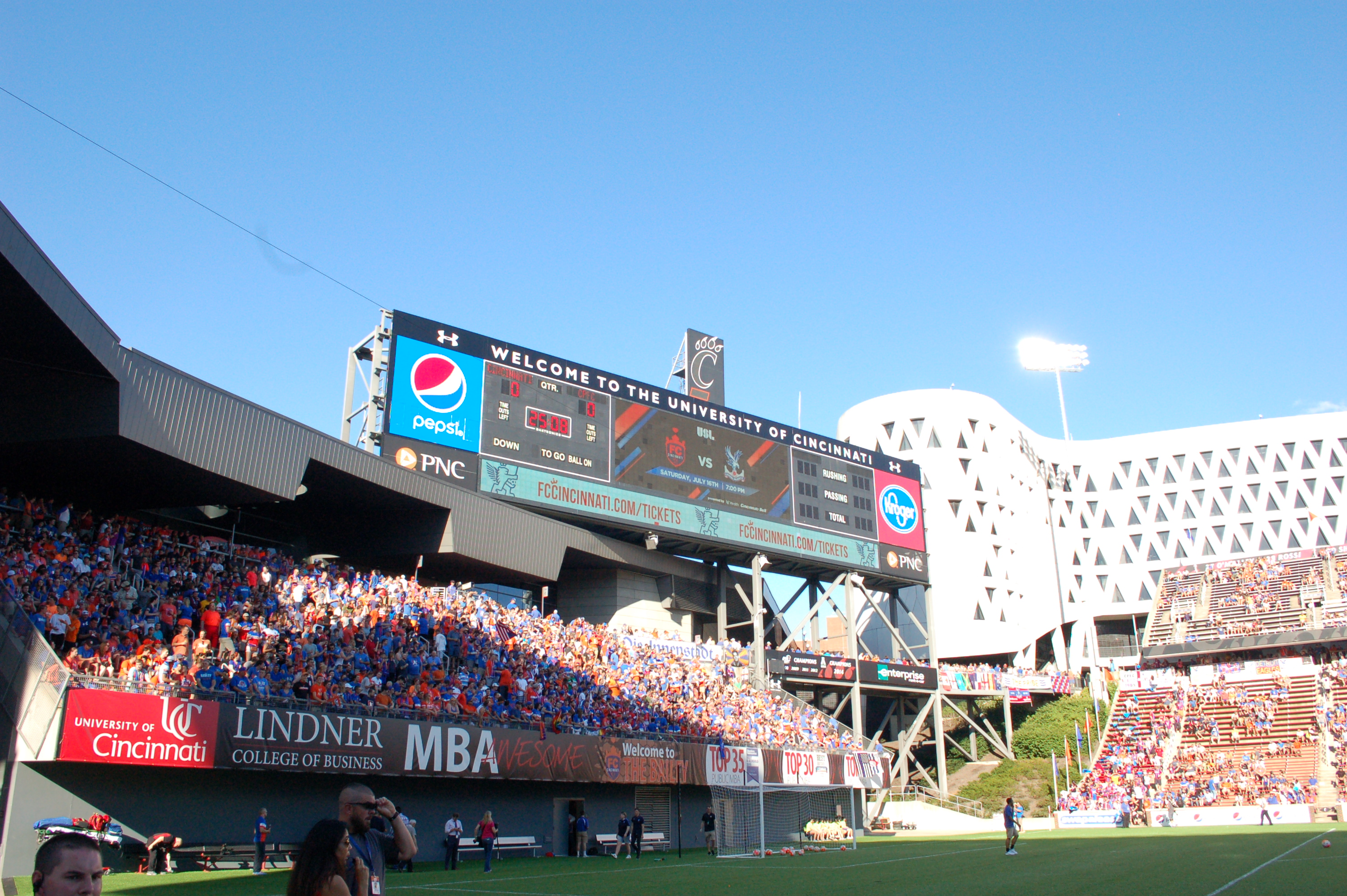 The Bailey and scoreboard Taken during an exhibition match between FC Cincinnati and Crystal Palace F.C. at Nippert Stadium in Cincinnati on July 16, 2016.